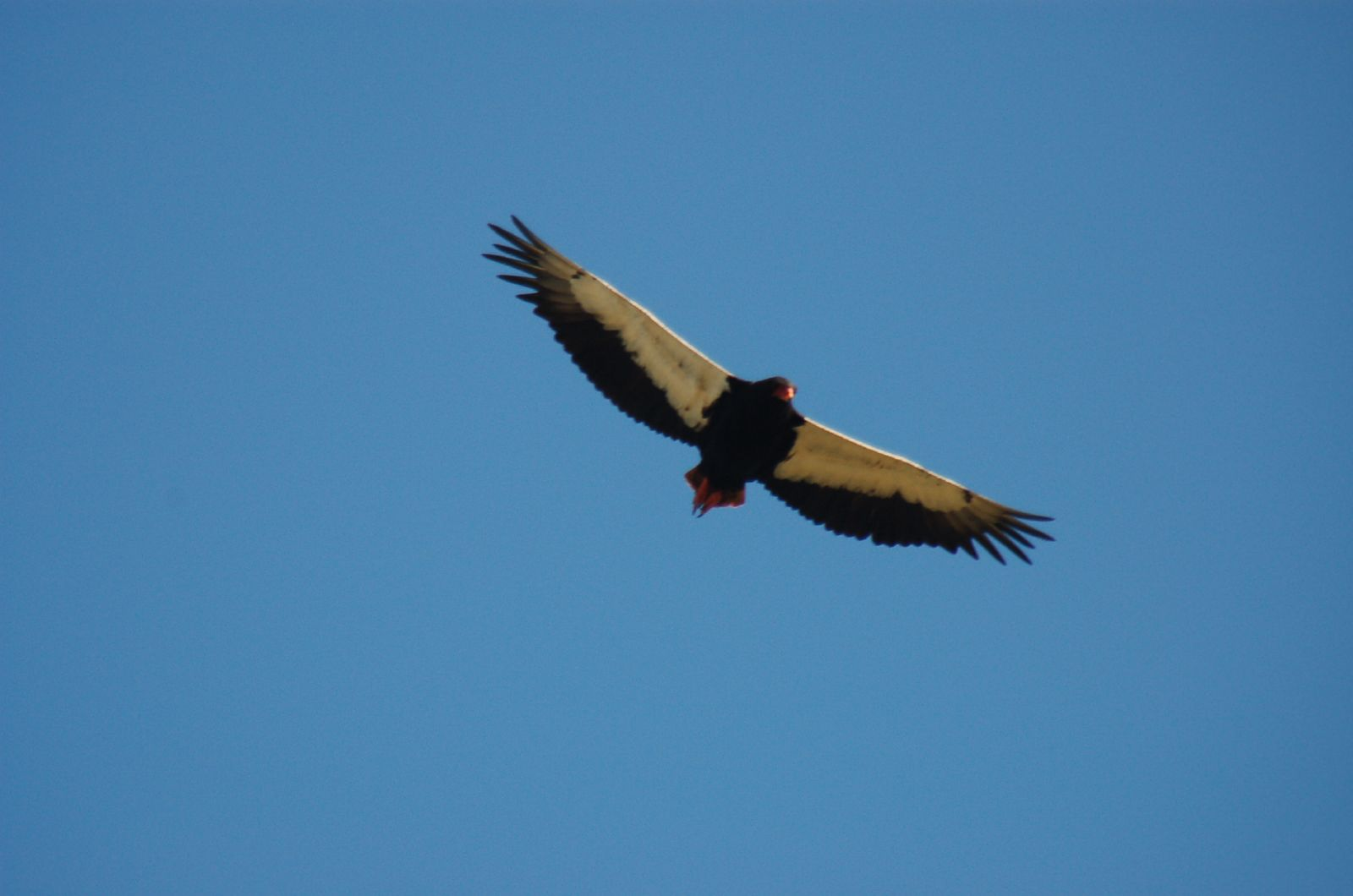 Adult male Bateleur Terathopius ecaudatus in flight, at the Thornybush Game Reserve next to the Kruger National Park near Hoedspruit, South Africa.